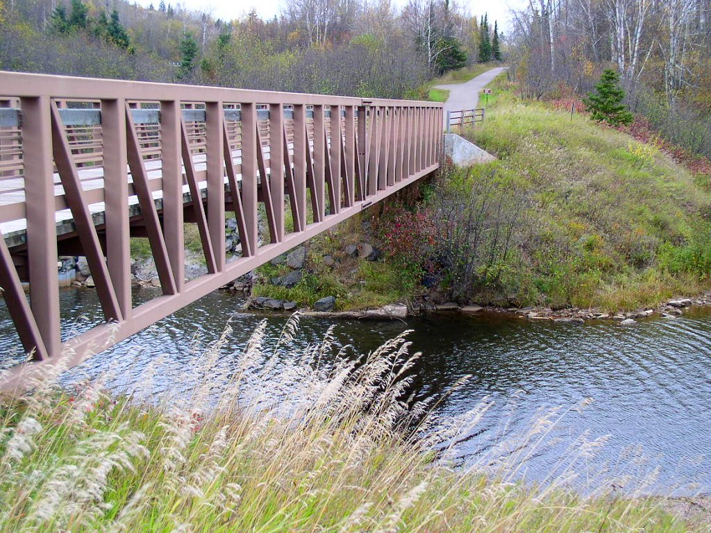 The Gitchi Gami State Trail bridging the Split Rock River in Split Rock Lighthouse State Park, Minnesota, USA